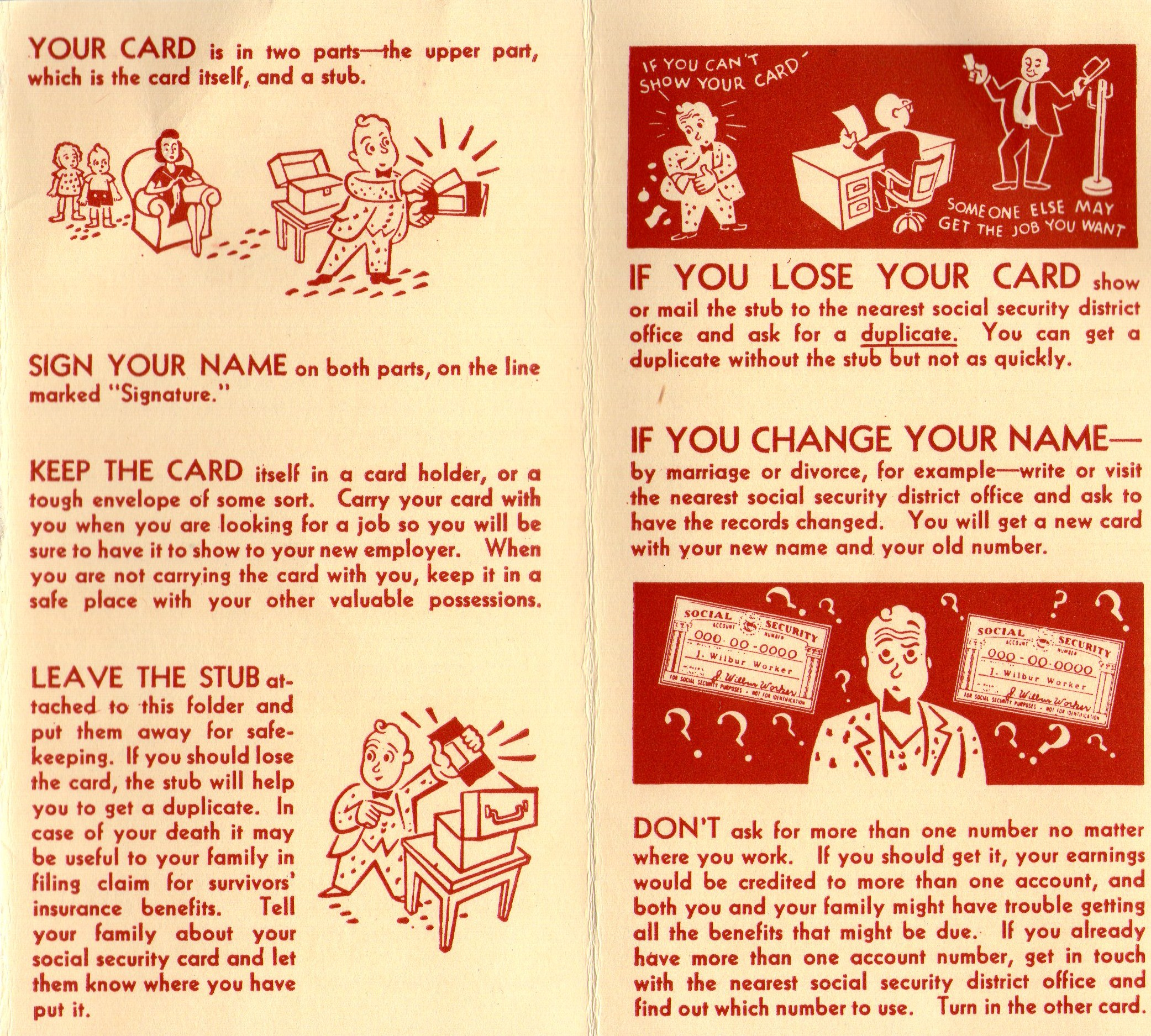 Pages 2 and 3 of a U.S. government brochure possibly titled "Social Security is Family Protection" or "For more information ..." (both large-typeface statements on the first page of the brochure), giving basic advice for people who have just received a Social Security card; the second page is on the left and the third page is on the right (another image, File:BrochureUSSocialSecurity1961Pages1and4FormOAAN7006.jpg, has the first and fourth [last] pages from the other side of the paper); the original brochure is colored as shown in this image (brownish red ink on paper that looks and feels like an old manila file folder, and about the same thickness); the folded brochure is about three inches wide by about five inches long, with the first two pages slightly wider than the rest; the right edge of the first page (which is the left edge of the second page) is rough, indicating something may have been torn from it (perhaps an additional page holding the Social Security card itself, as mentioned in the last paragraph of page two)